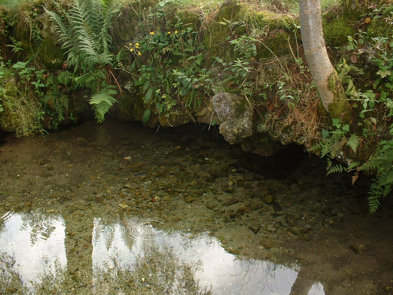 Karstspring of rivulet Wiesent Steinfeld near Bamberg, Franconia.